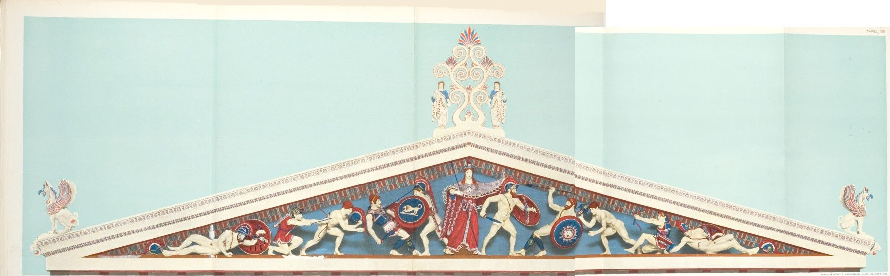 Colourful Reconstruction of the classic Eastern pediment of the Temple of Aphaia at Aegina.